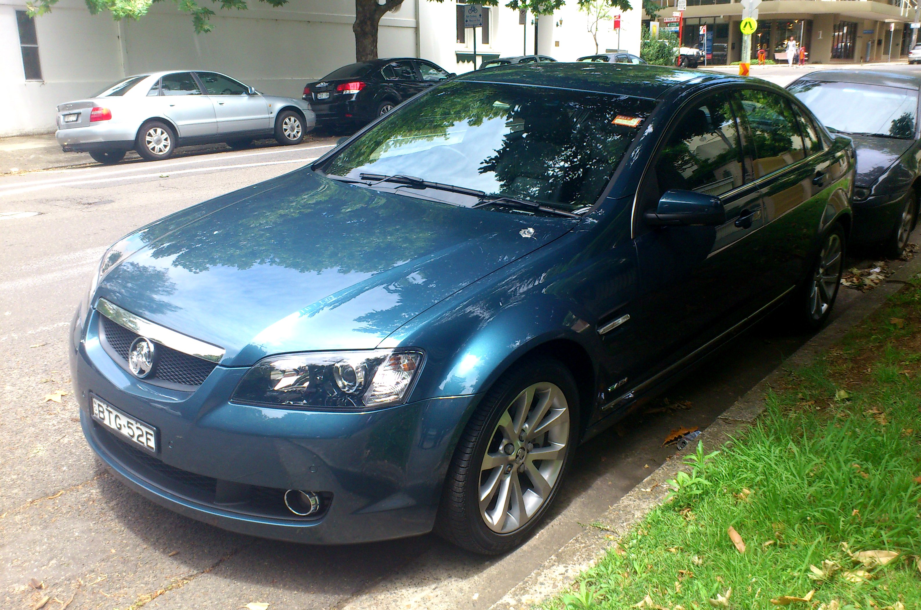 Top spec Calais with the AFM V8.